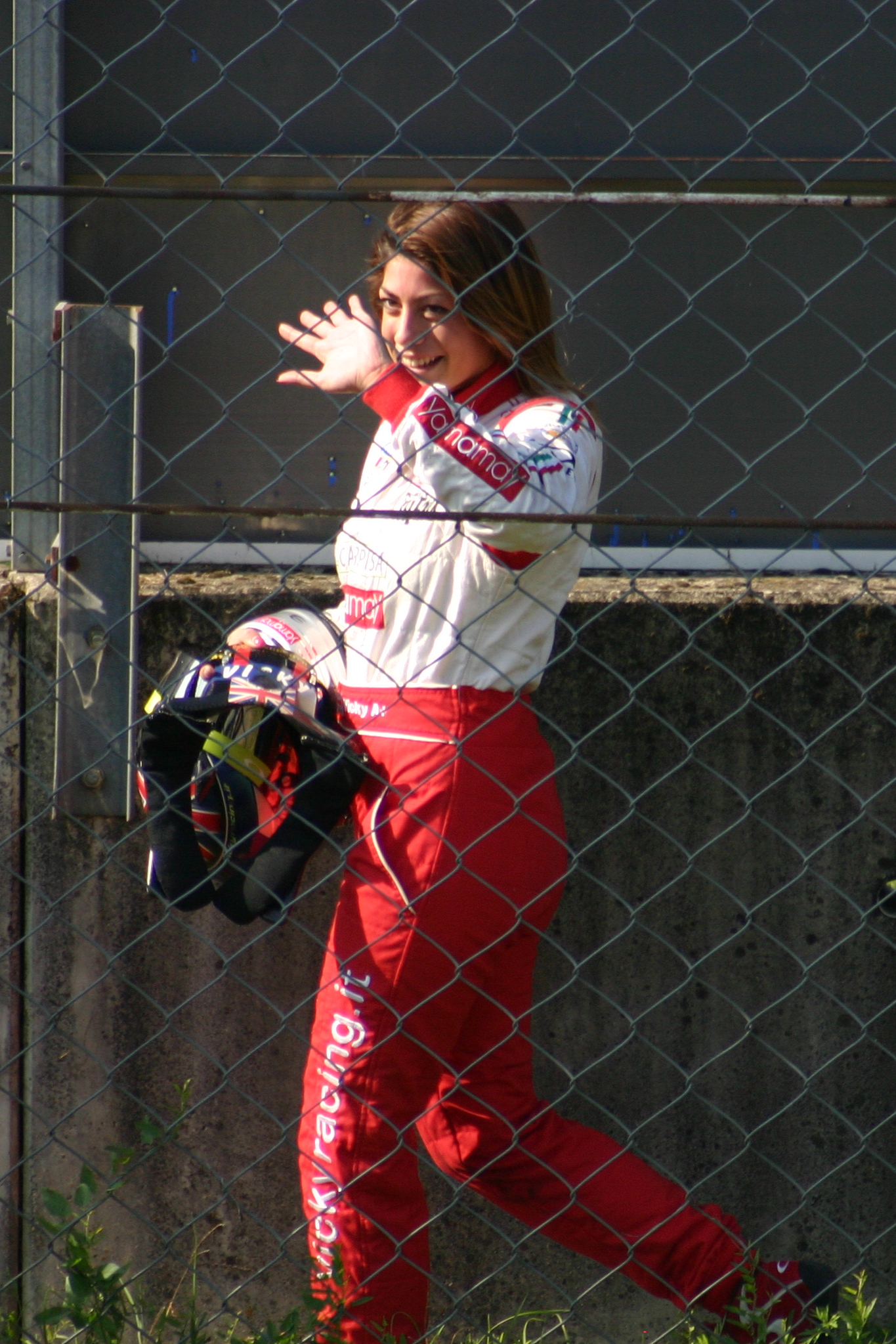 Italian racing driver Vicky Piria at Monza, Formula ACI/CSAI Abarth Italian Championship, October 16, 2011.